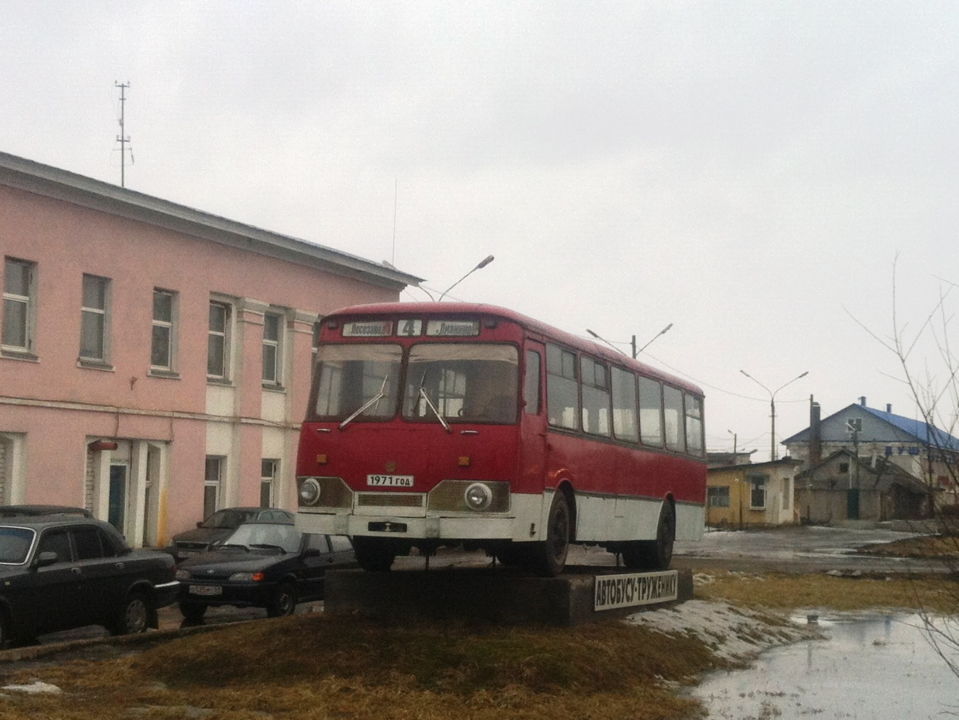 Monument to Liaz 677 in Vyshniy Volochek